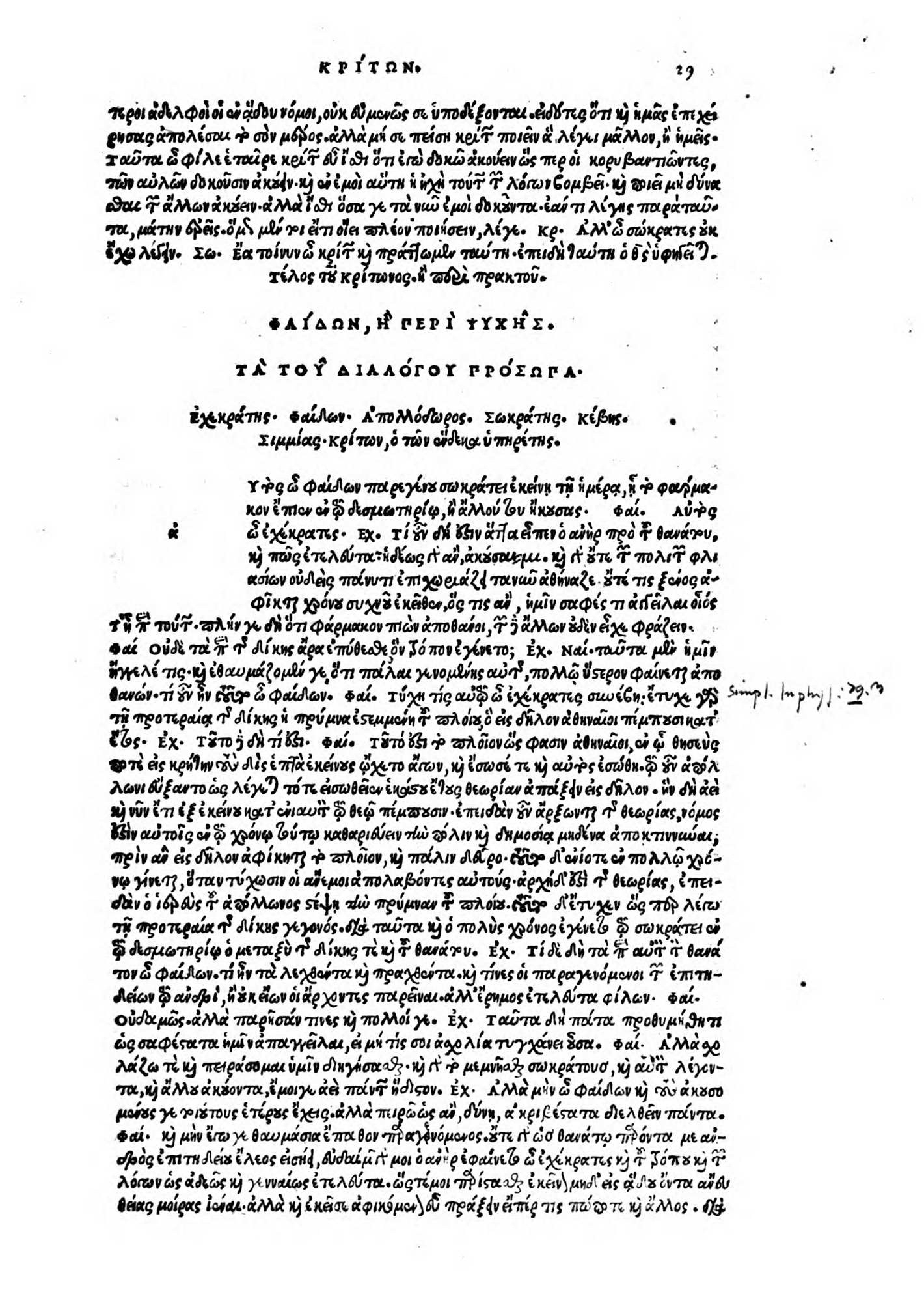 Phaidon beginning. Editio princeps, Venice 1513.